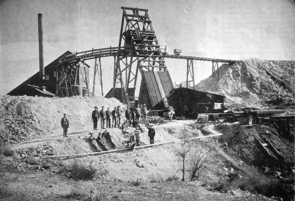 This photograph, taken near the main shaft of the Good Hope Mine, shows a somewhat unusual headframe, with tramways leading to the mill and to the waste dump.